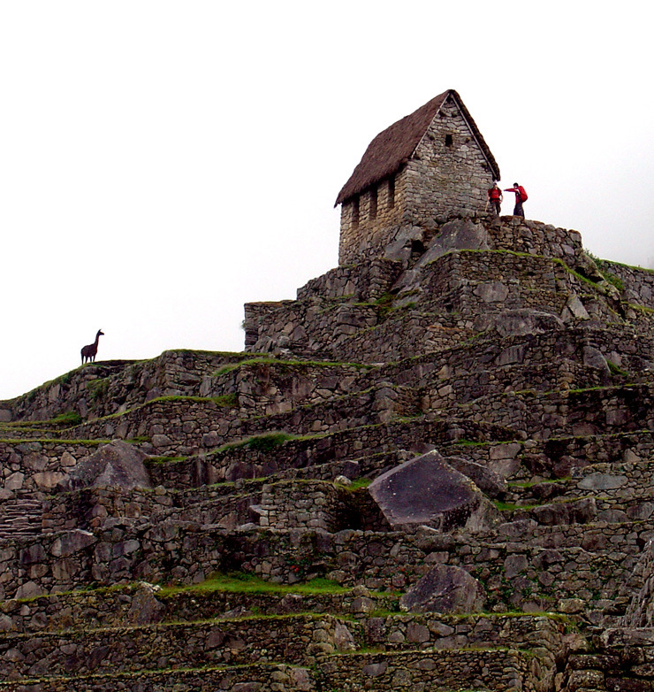 Teraces of Machu Picchu, Peru